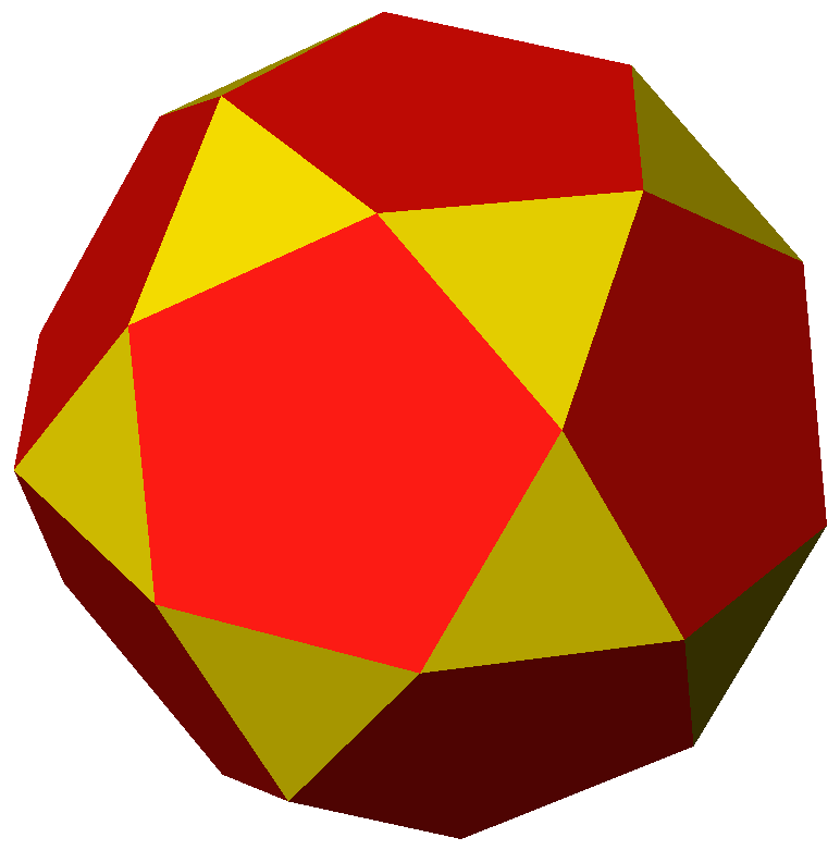 Transition Dodecahedron to Icosahedron 3of5